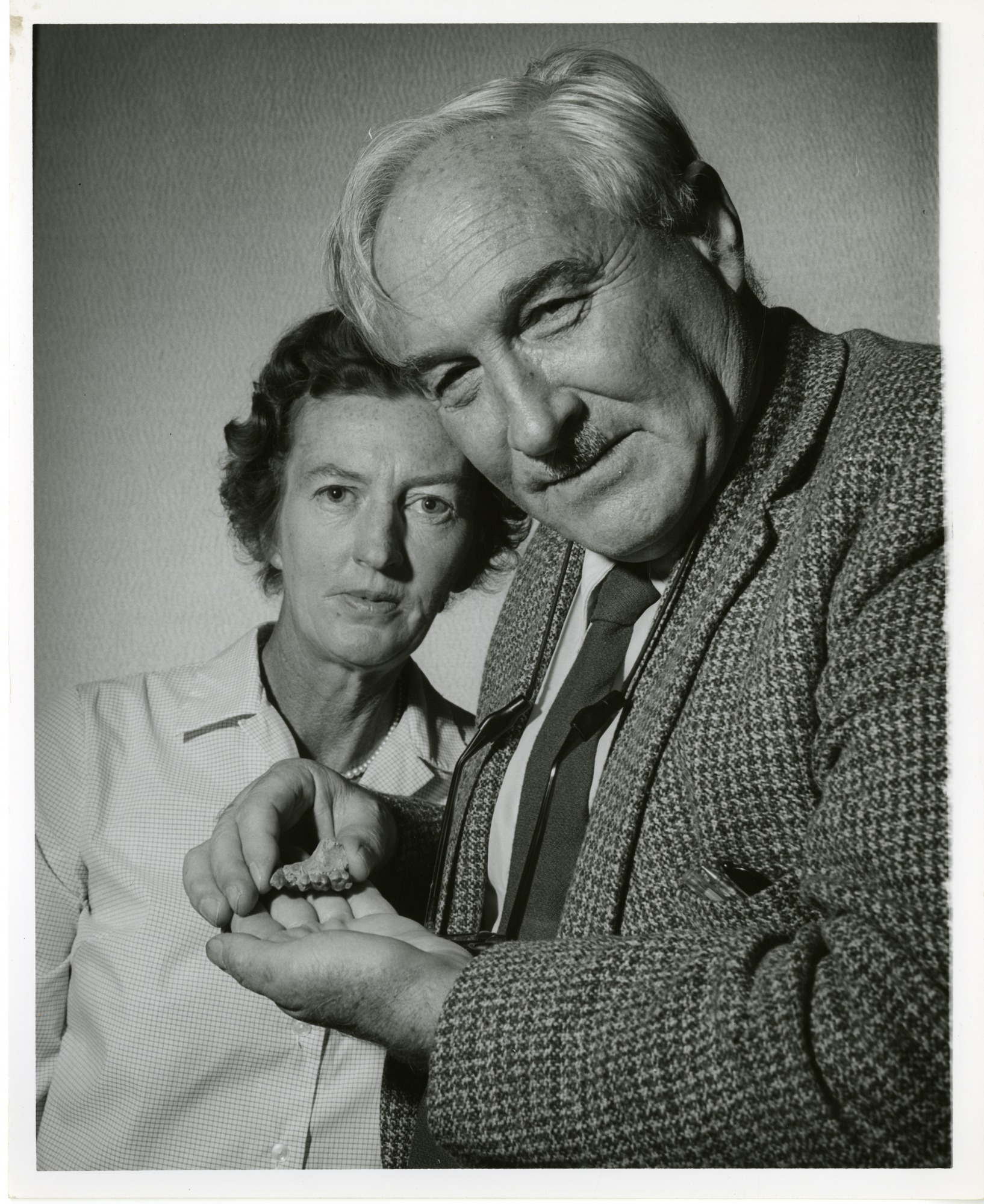 British archeologist and anthropologist Mary Douglas Nicol Leakey (1913-1996) and her husband Louis Seymour Bazett Leakey (1903-1972), 1962. Cite as: Acc. 90-105 - Science Service, Records, 1920s-1970s, Smithsonian Institution Archives Persistent URL:Link to data base record